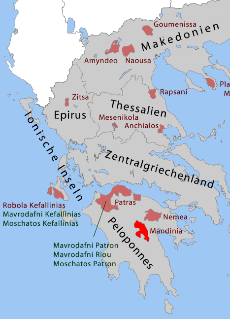 Greek wine regions with OPE (Green) and OPAP Appellations (red)